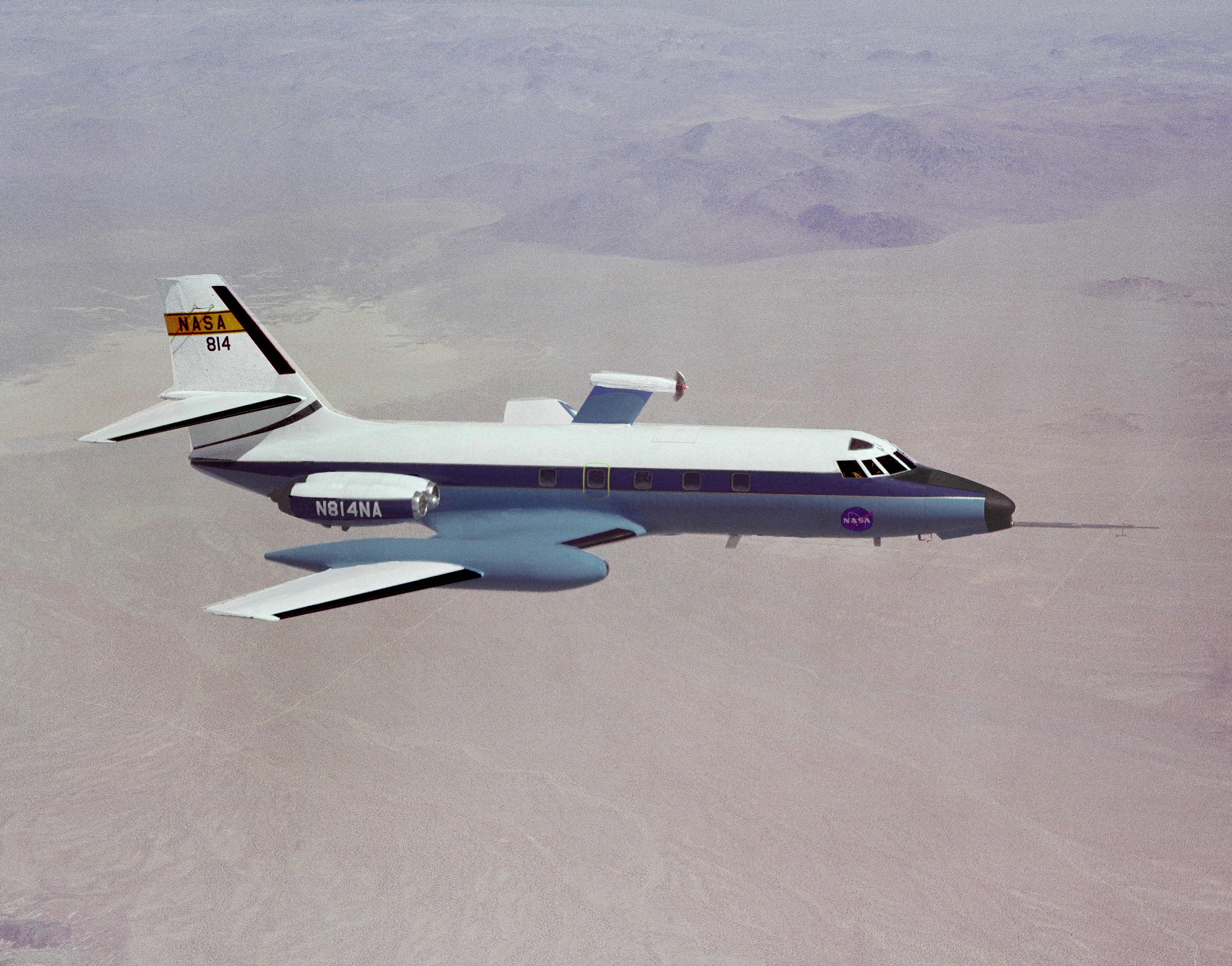 Enhanced version of an image released by NASA.